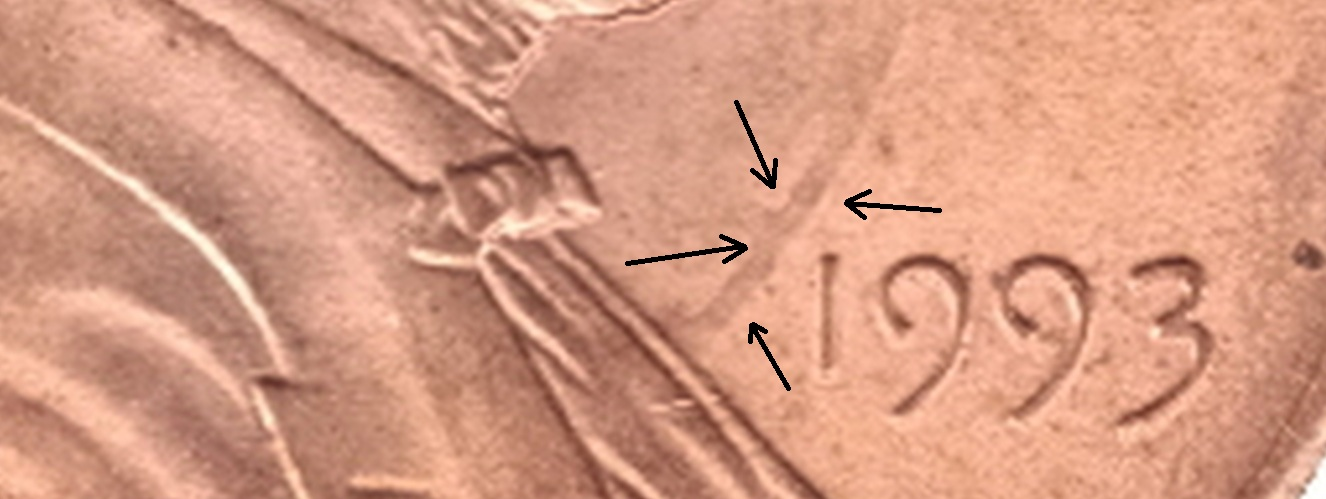 1993 Lincoln cent MAD clash - an error made by the US Mint.